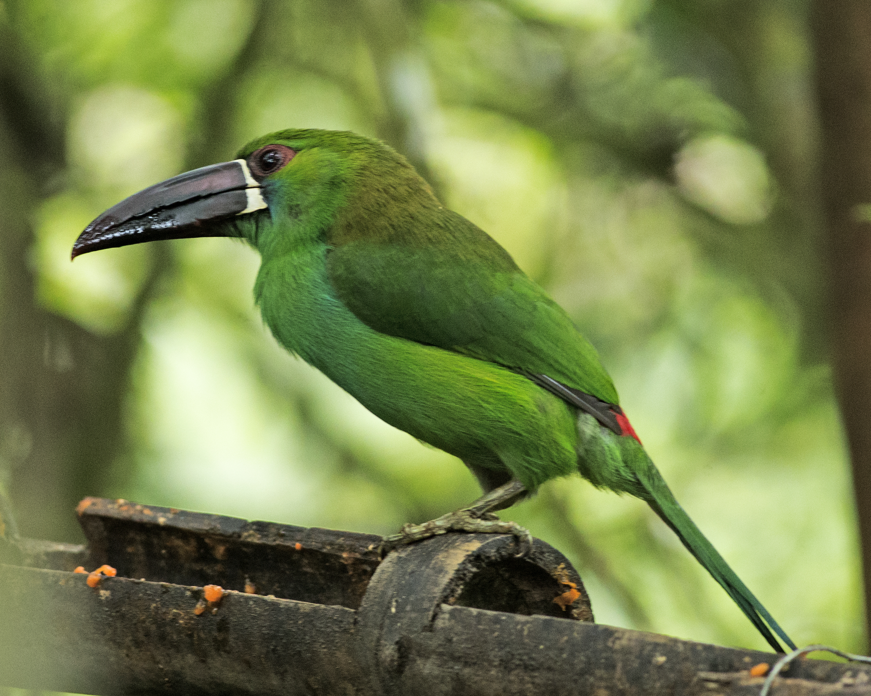 Crimson-rumped Toucanet Aulacorhynchus haematopygus Aulacorhynchus haematopygus sexnotatus Tandayapa, near Quito, Ecuador, 10th. August 2014 CF2P3315